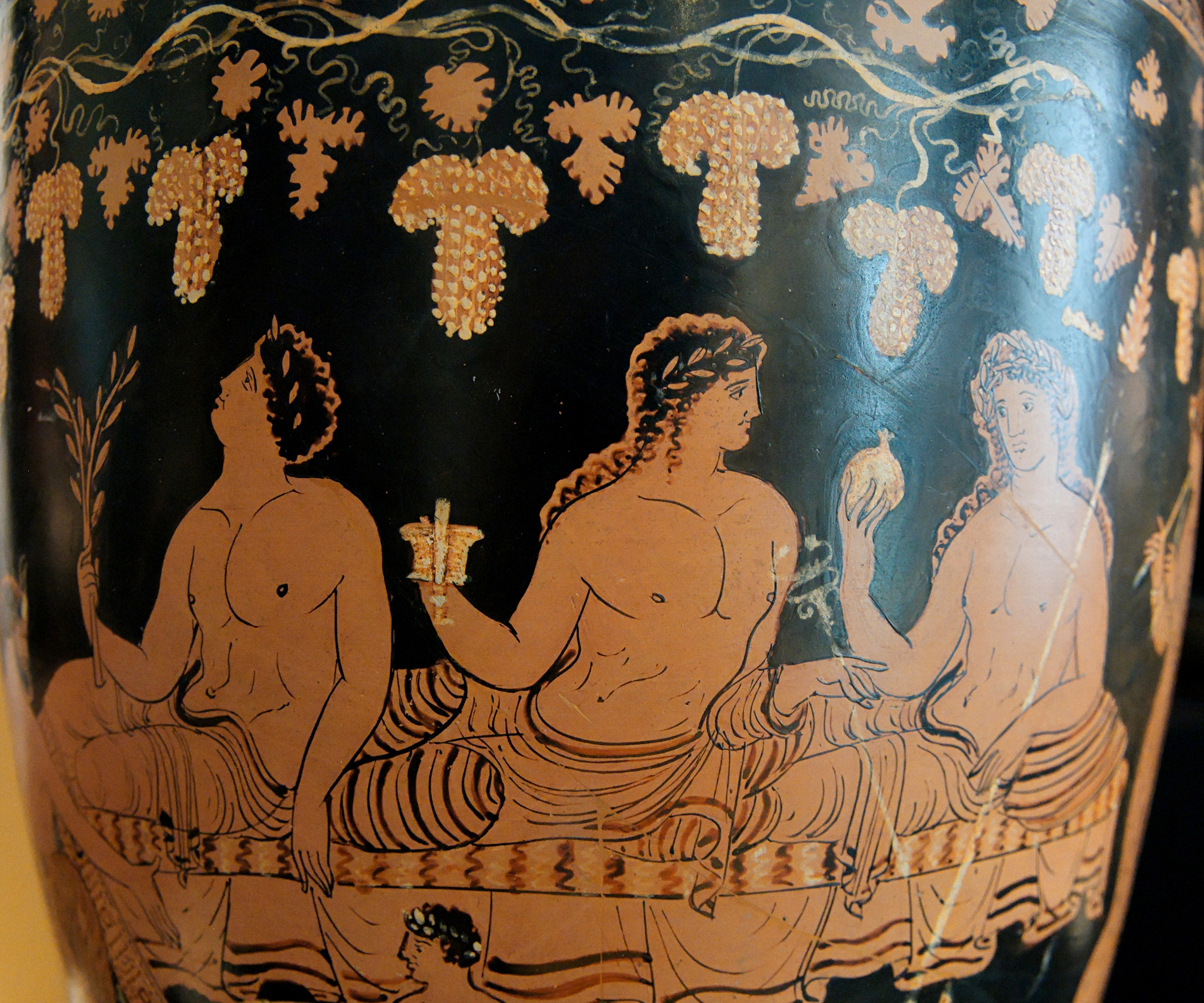 From left to right: Apollo, Dionysos and Hermes banqueting. Apulian red-figure situla, 350–330 BC.